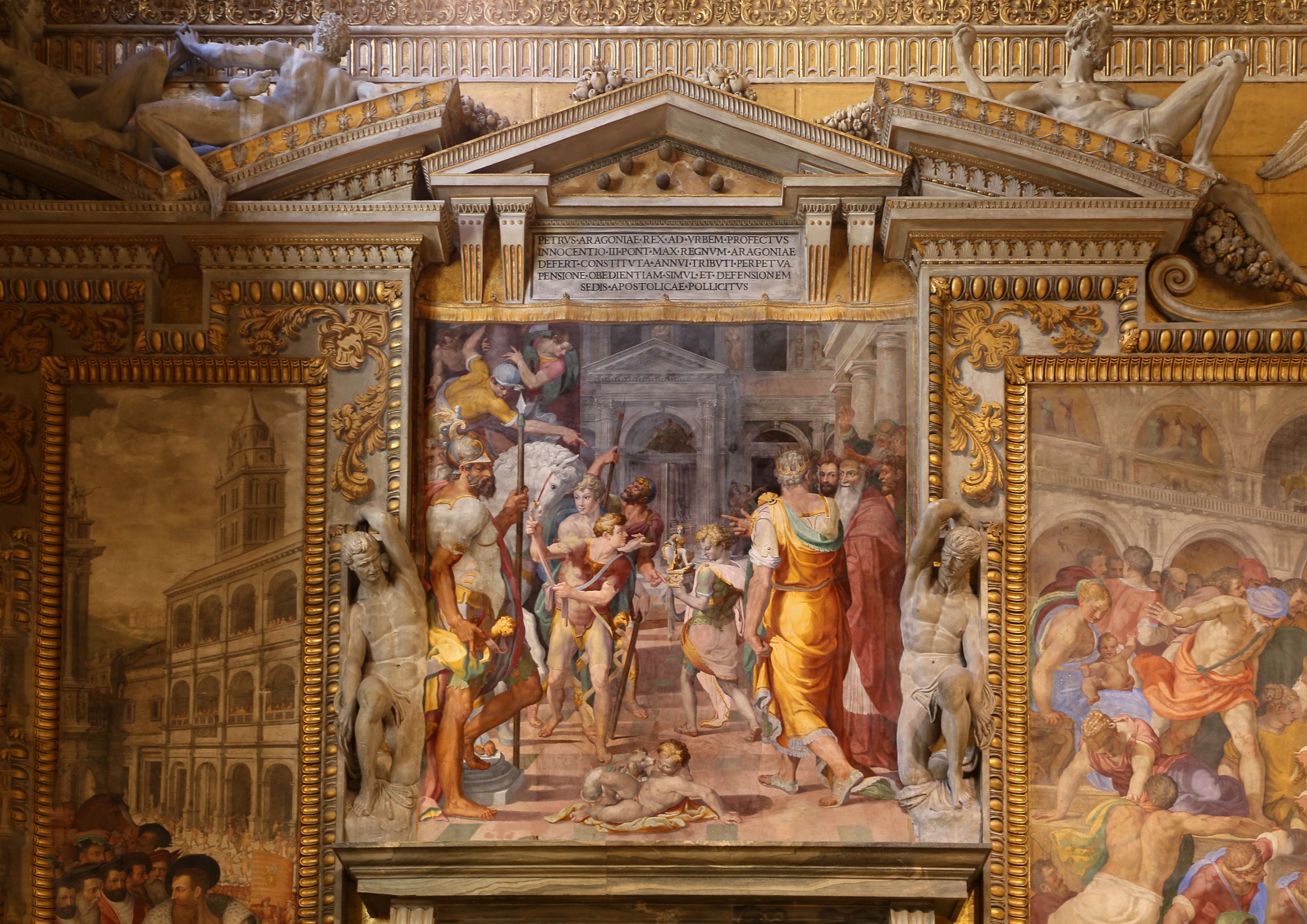 Sala Regia, Vatican